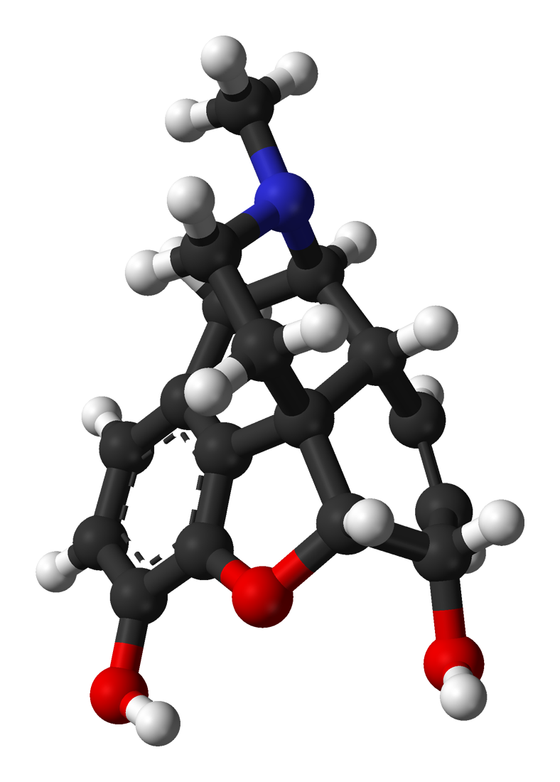 Ball-and-stick model of the morphine molecule, C17H19NO3. X-ray crystallographic from L. Gylbert (August 1973). "The crystal and molecular structure of morphine hydrochloride trihydrate". Acta Cryst. B29 (9): 1630-1635.